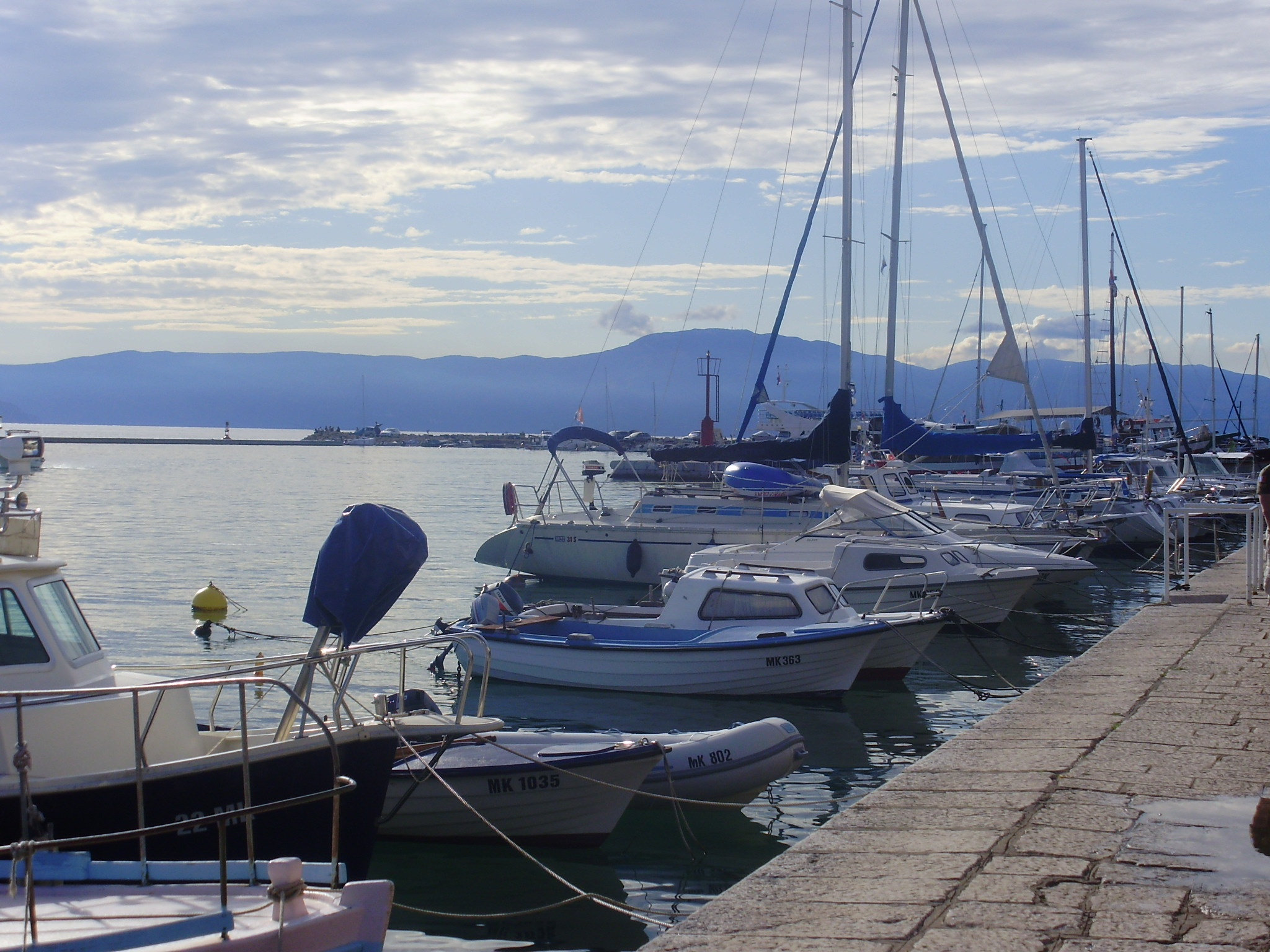 Harbour of the Malinska.